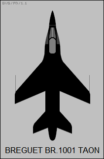 Plan-view silhouette of the Breguet Br.1001 Taon